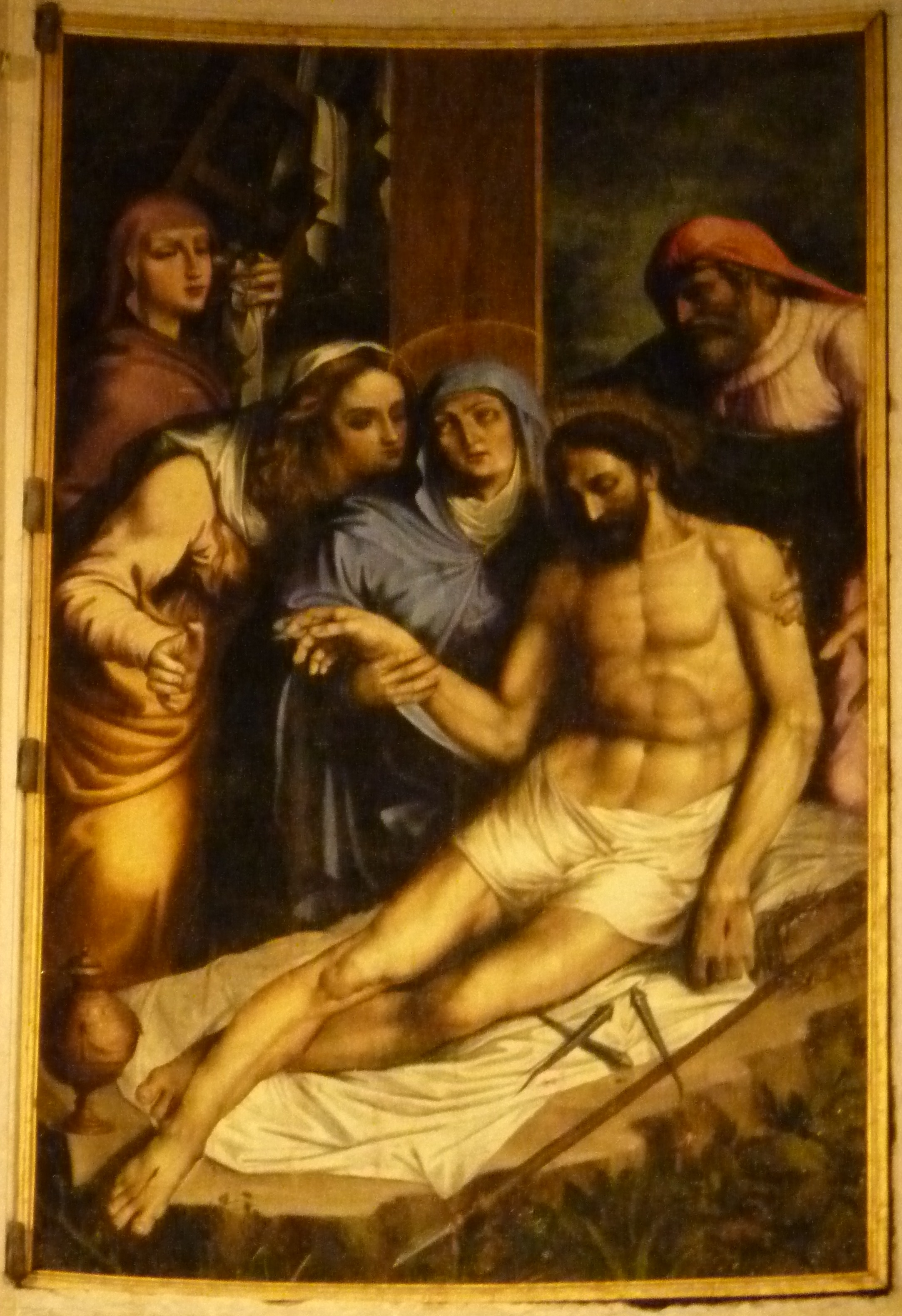 Interior of the Hieronymites Monastery (Jerónimos Monastery) in Belém, Lisbon